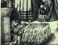 Robert Stuart, Duke of Kintyre.